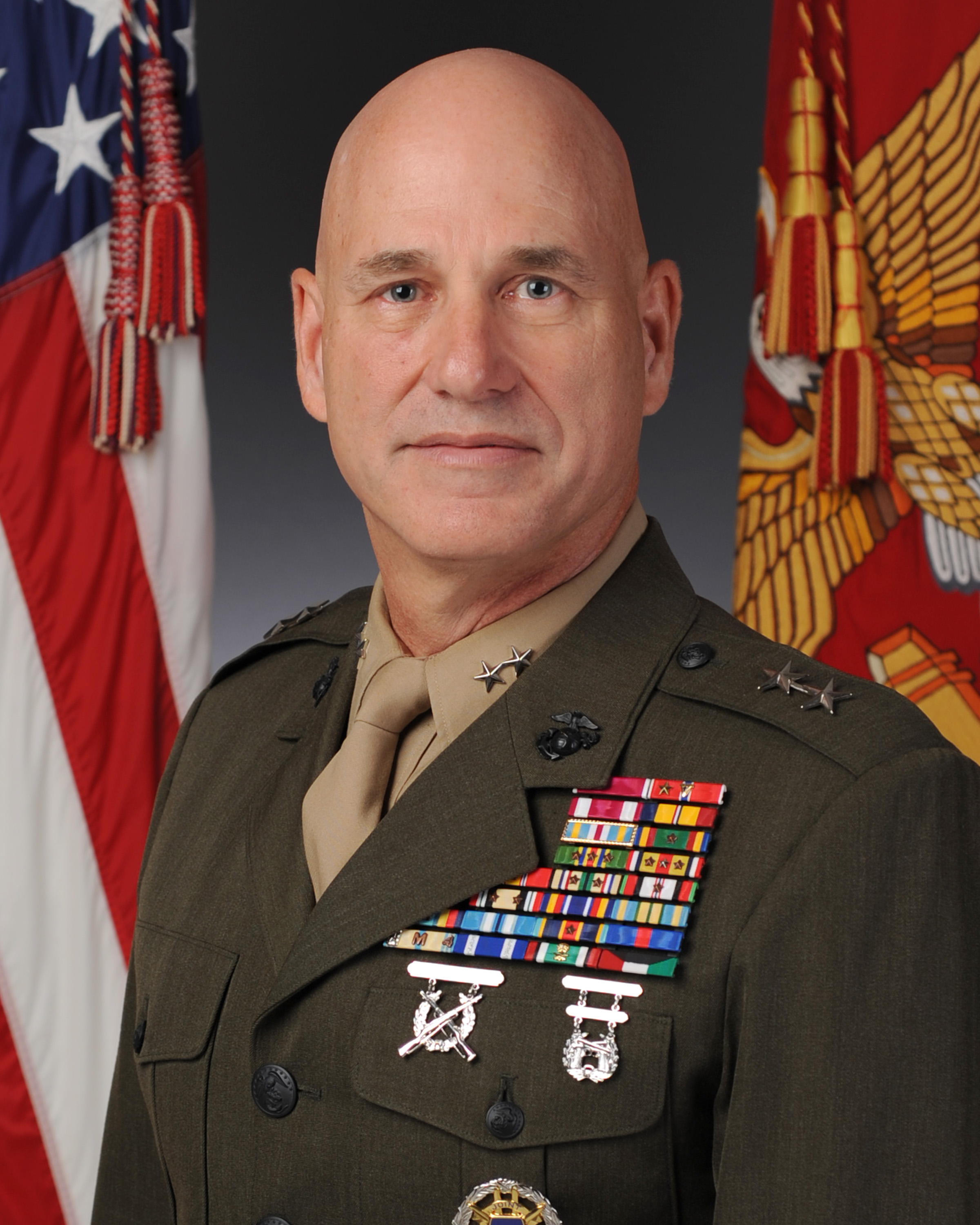 MAJGEN BRIER, PAUL Official Photo Sept 2015